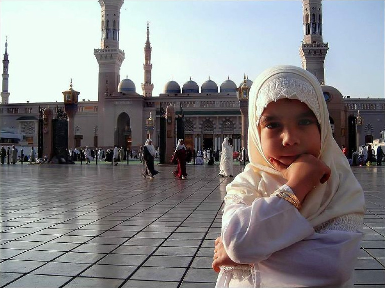 Little girl in white in Medina.